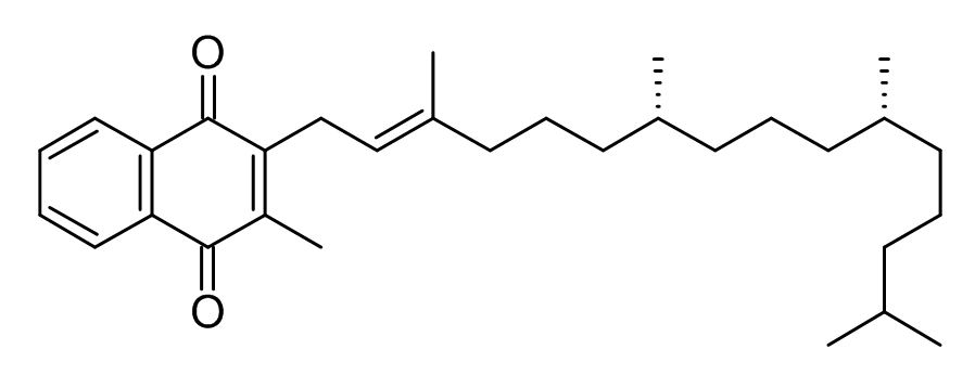 Structure of Vitamin K1 including stereo